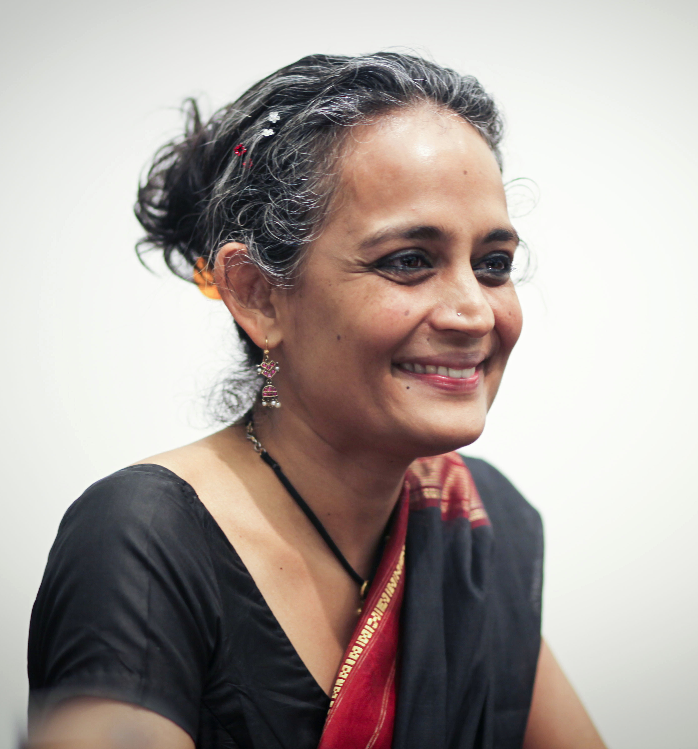 Arundhati Roy at Harvard University